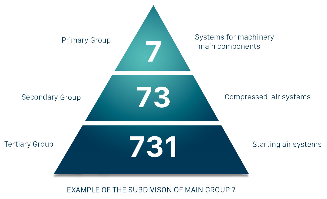 Example of the Subdivision of Primary Group 7